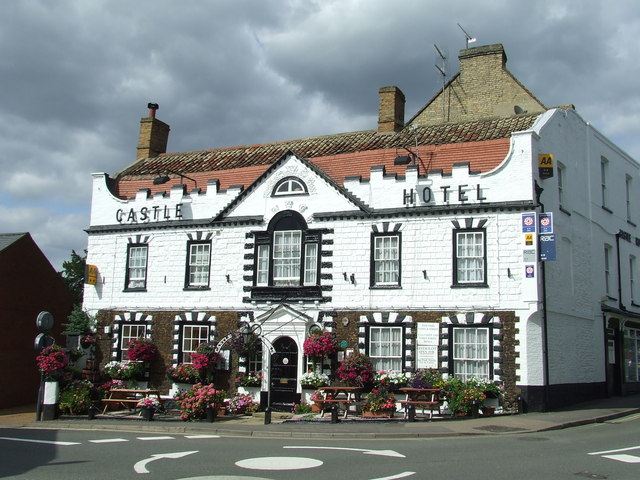 Castle Hotel Castle hotel Downham Market, Norfolk.